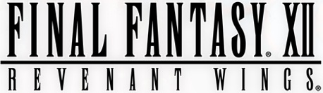 Logo Final Fantasy XII: Revenant Wings